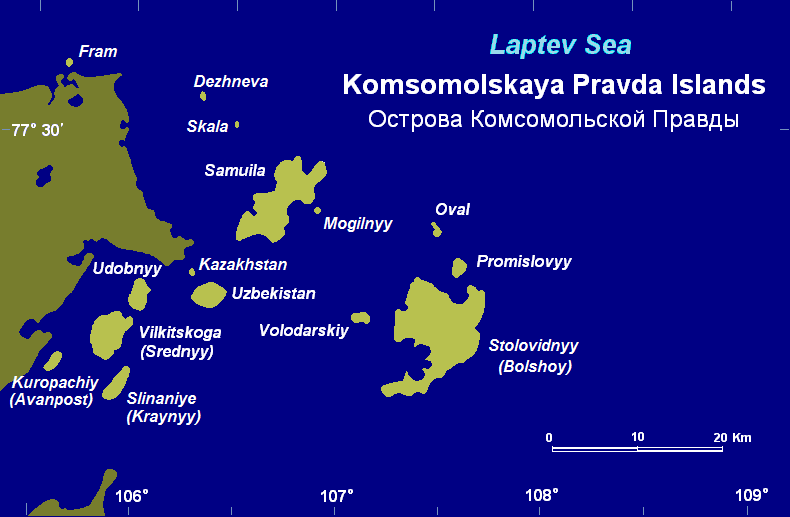 island map in color